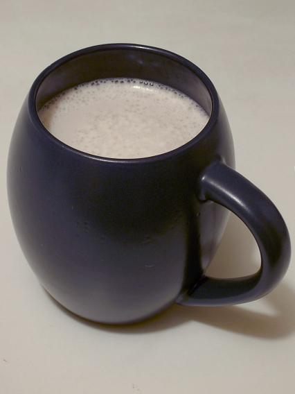 A mug of Horlicks fixes most problems - take your favourite mug, two teaspoons of Horlicks, mix in nearly boiled organic milk and take to a prewarmed bed. Sip drink until sleepy and let relaxed feeling spread from tummy to toes.